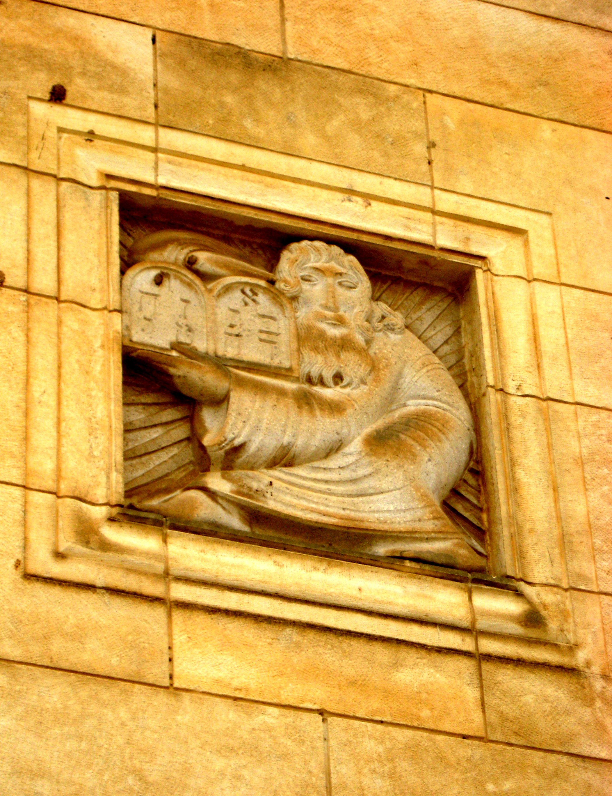 Relief sculpture of Moses and the Ten Commandments, Walls of the Rockefeller Museum, Jerusalem. Sculptor: Eric Gill.